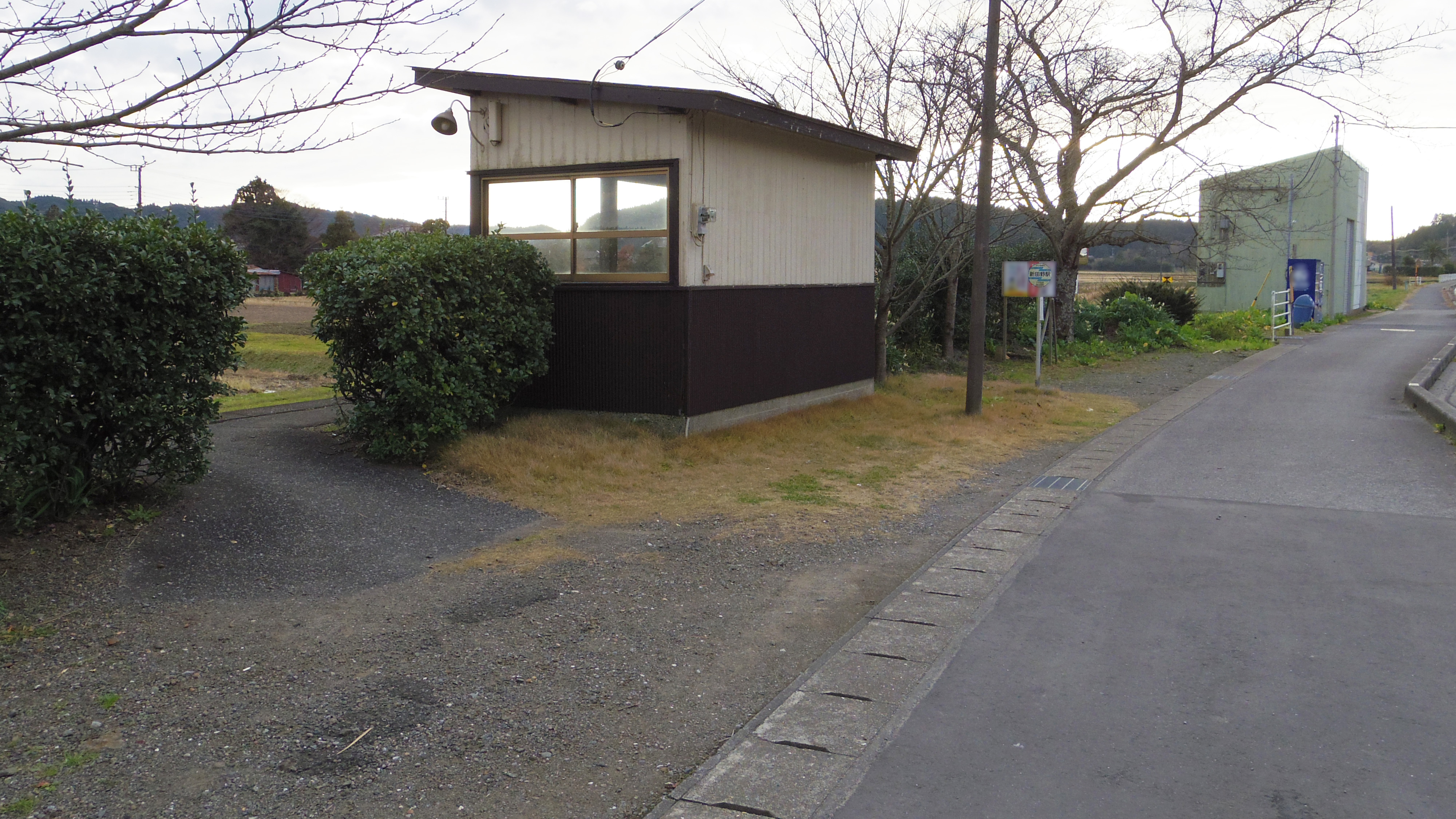 The entrance to Nittano Station on the Isumi Line in Isumi city, Chiba prefecture, Japan